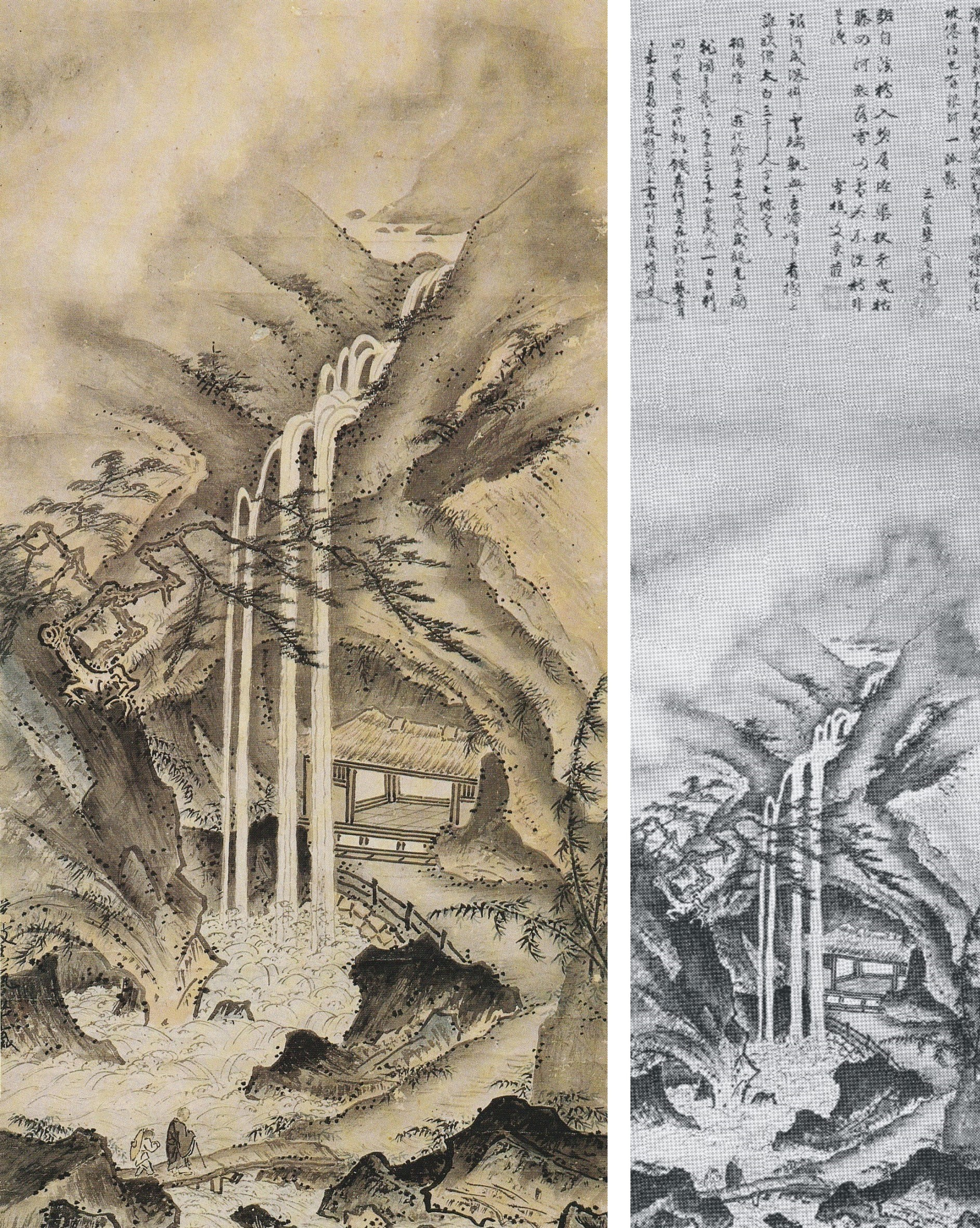 Geiami picturescroll Waterfall full and detail